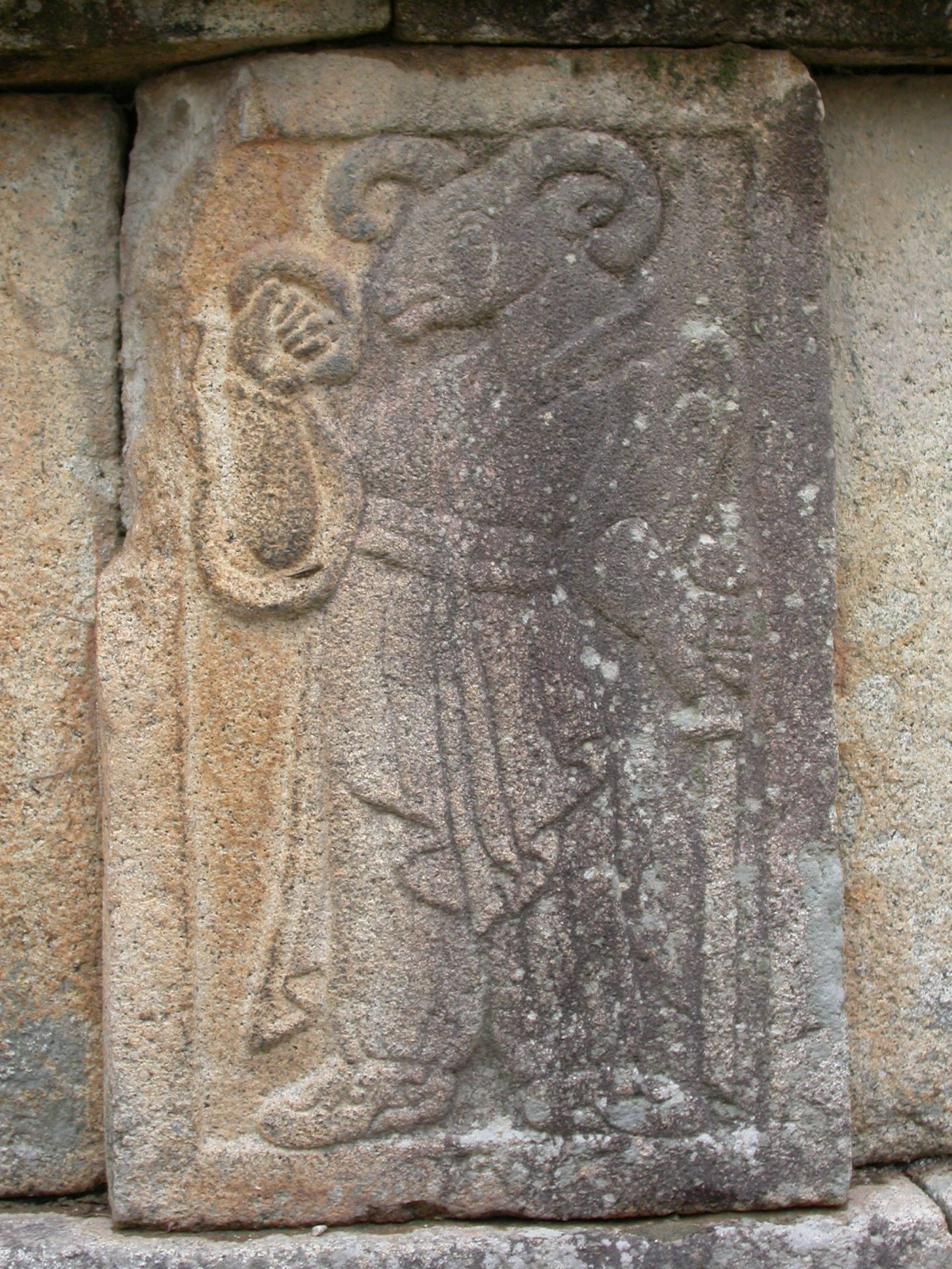 Tomb of General Kim Yusin